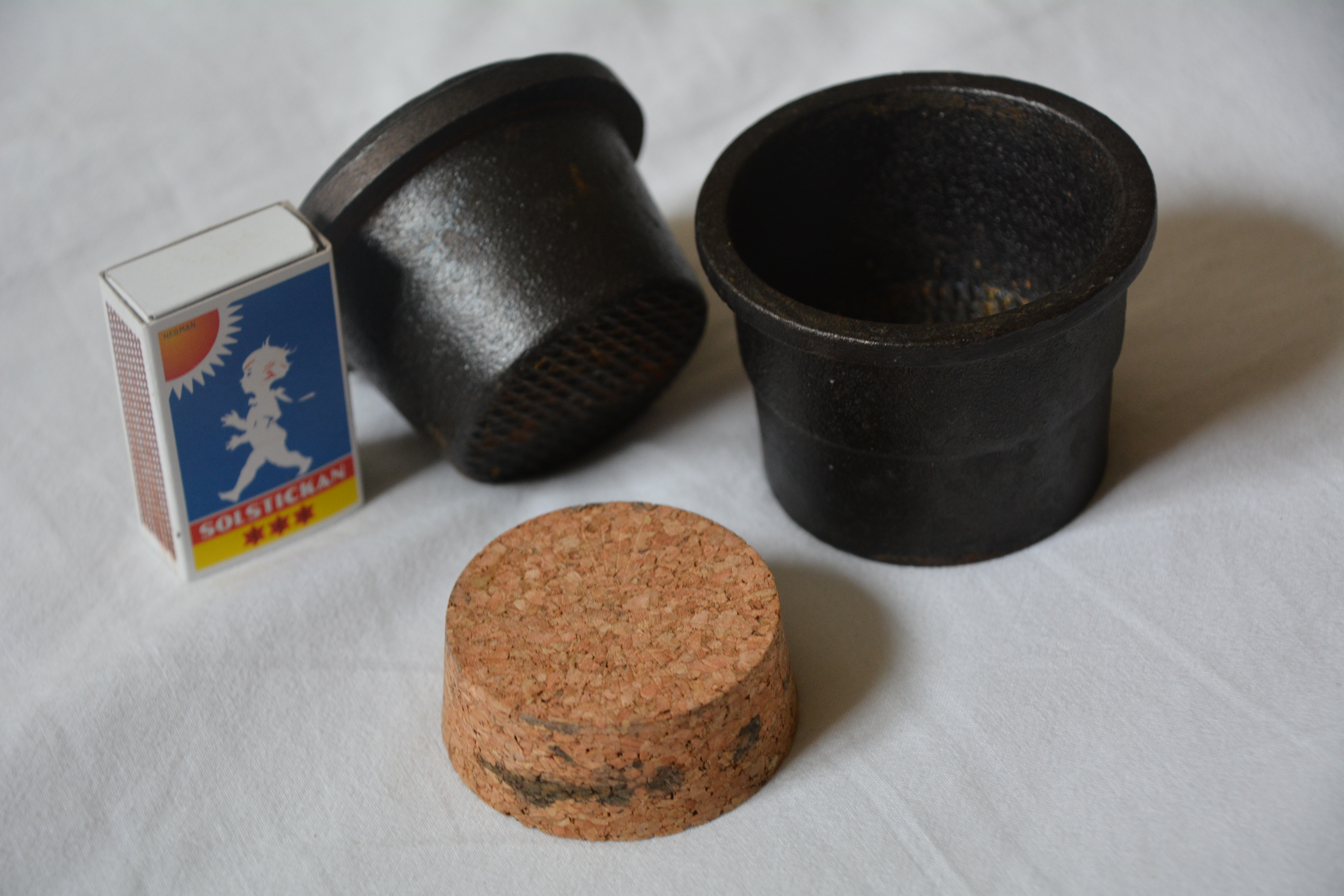 Spice grinder in cast iron, 1.15 kg, height 6 cm. Skeppshults Gjuteri, Sweden